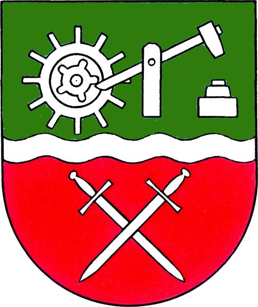 Coat of amrs of Čenkov , District Příbram, Czech Republic